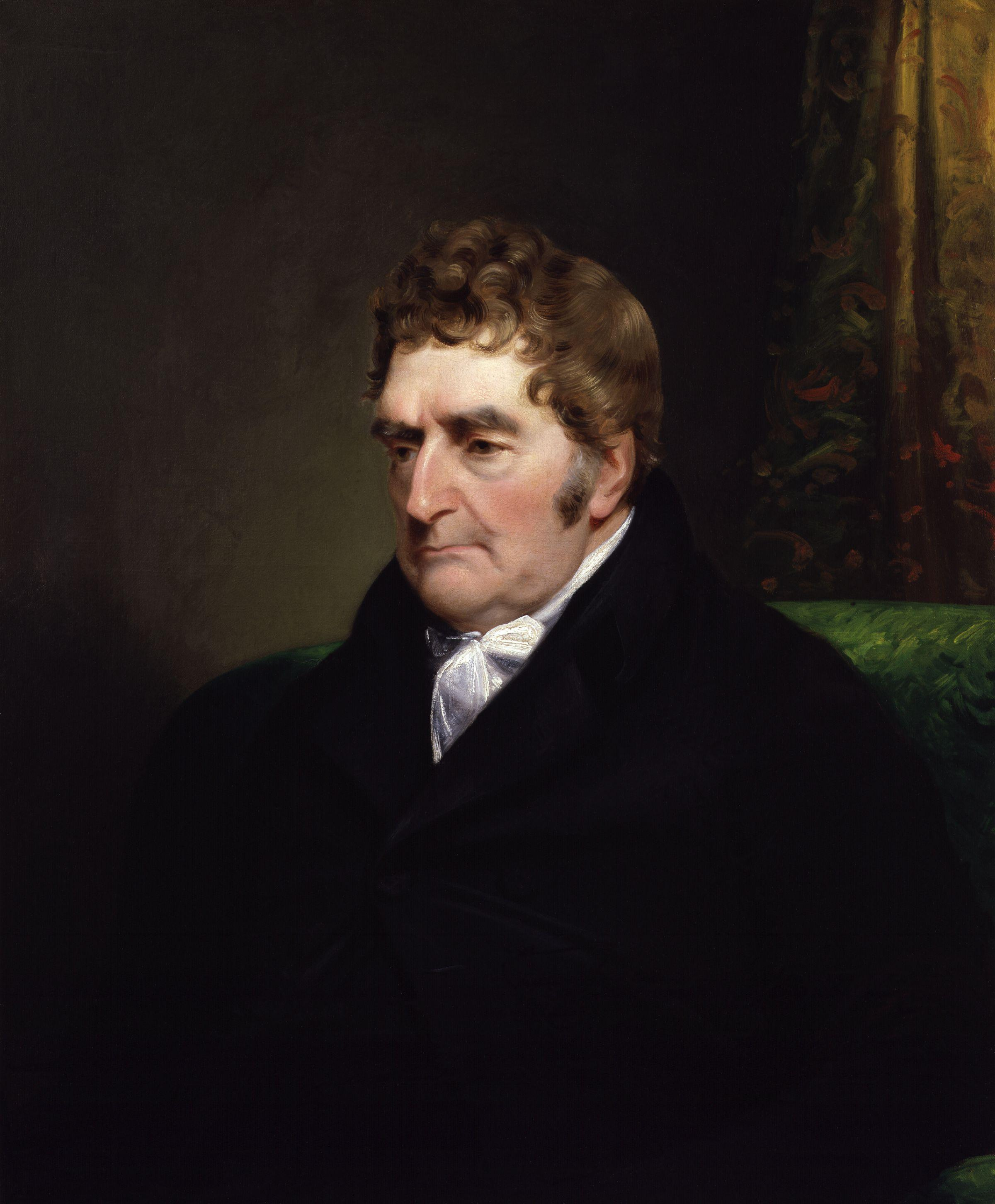 Joseph Nollekens, by James Lonsdale (died 1839), given to the National Portrait Gallery, London in 1873. All images in this batch have been confirmed as author died before 1939 according to the official death date listed by the NPG.